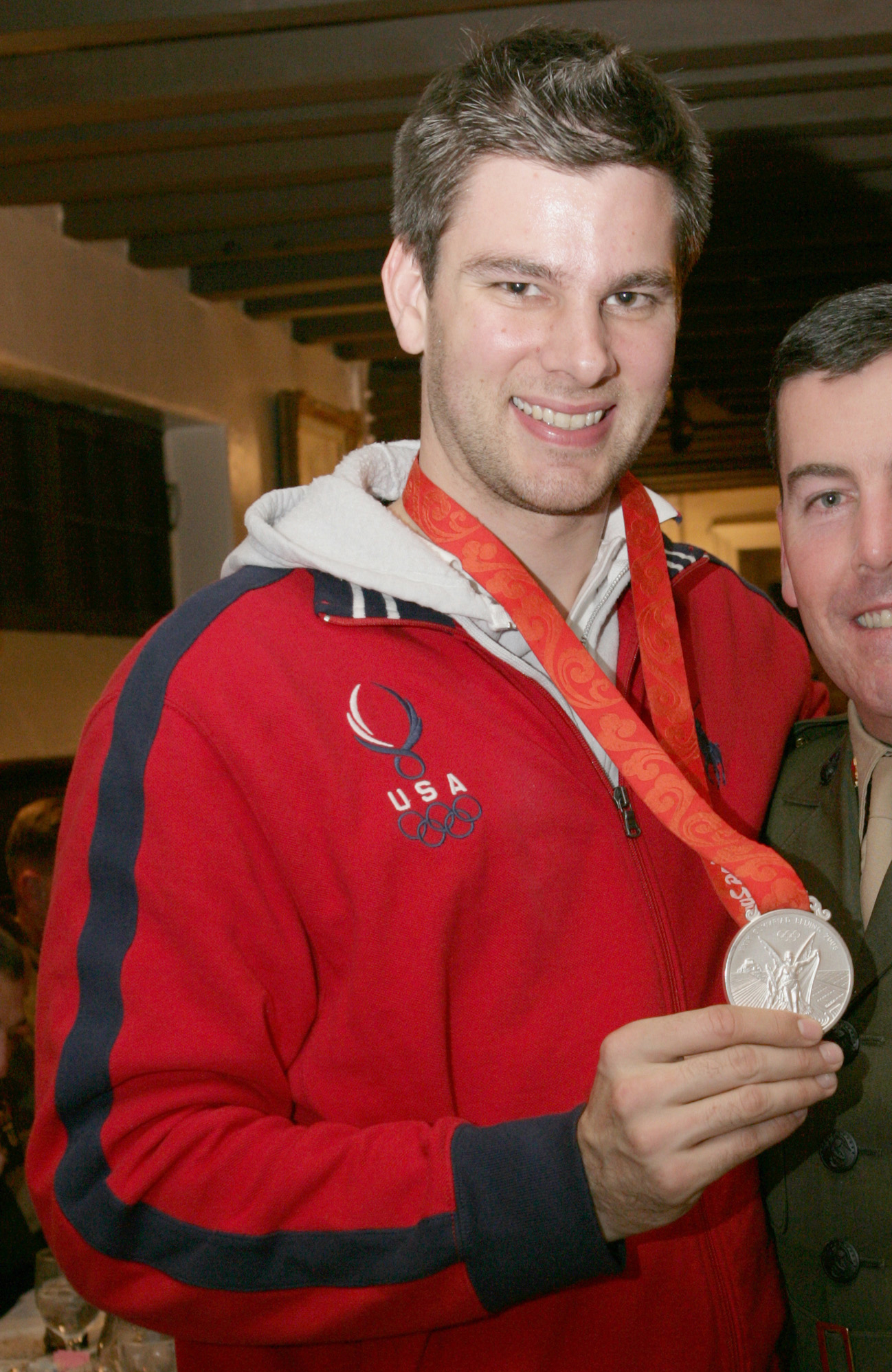 The fencing Olympic Silver Medalist Tim Morehouse, as a guest speaker at Salmagundi Art Club's presentation of Col. Charles Waterhouse's artwork in New York on Nov. 9, 2008. Forty Marines were invited to attend a dinner and special viewing of Marine Corps artist Charles Waterhouse's works. (the extract from an original text)